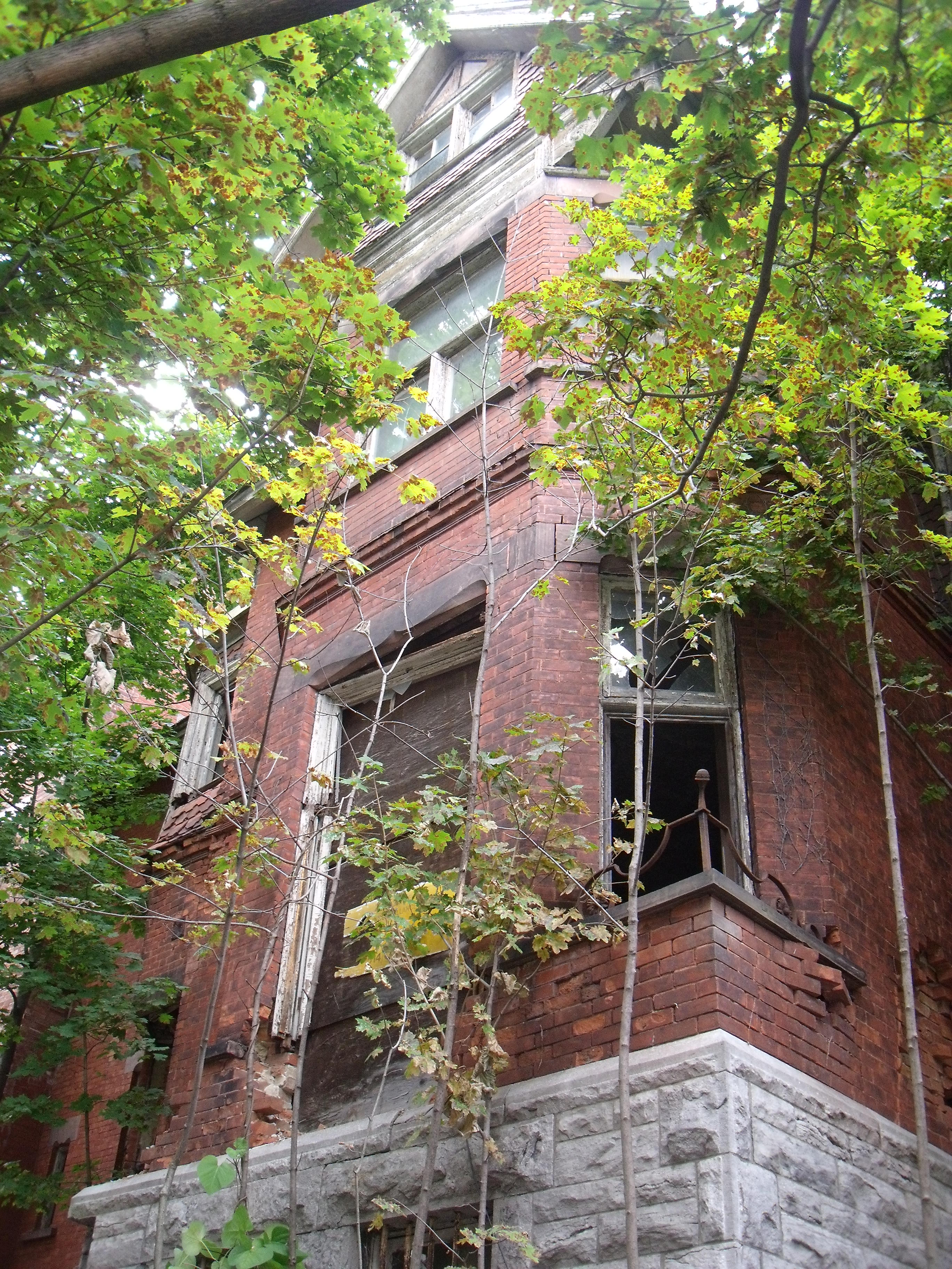 Frederick Redpath House (1886), 3457, Du Musée Avenue, Montreal, Quebec, Canada.